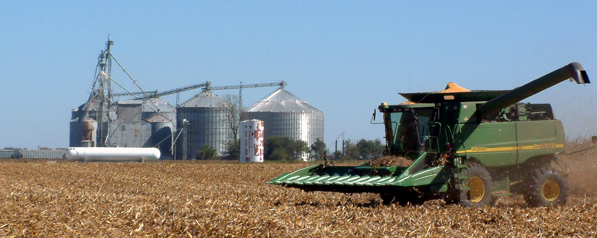 A John Deere 9760STS combine harvester fitted with a corn header gathers corn west of the small town of Stewart, Indiana. The Stewart Grain Company's elevators are seen in the distance.